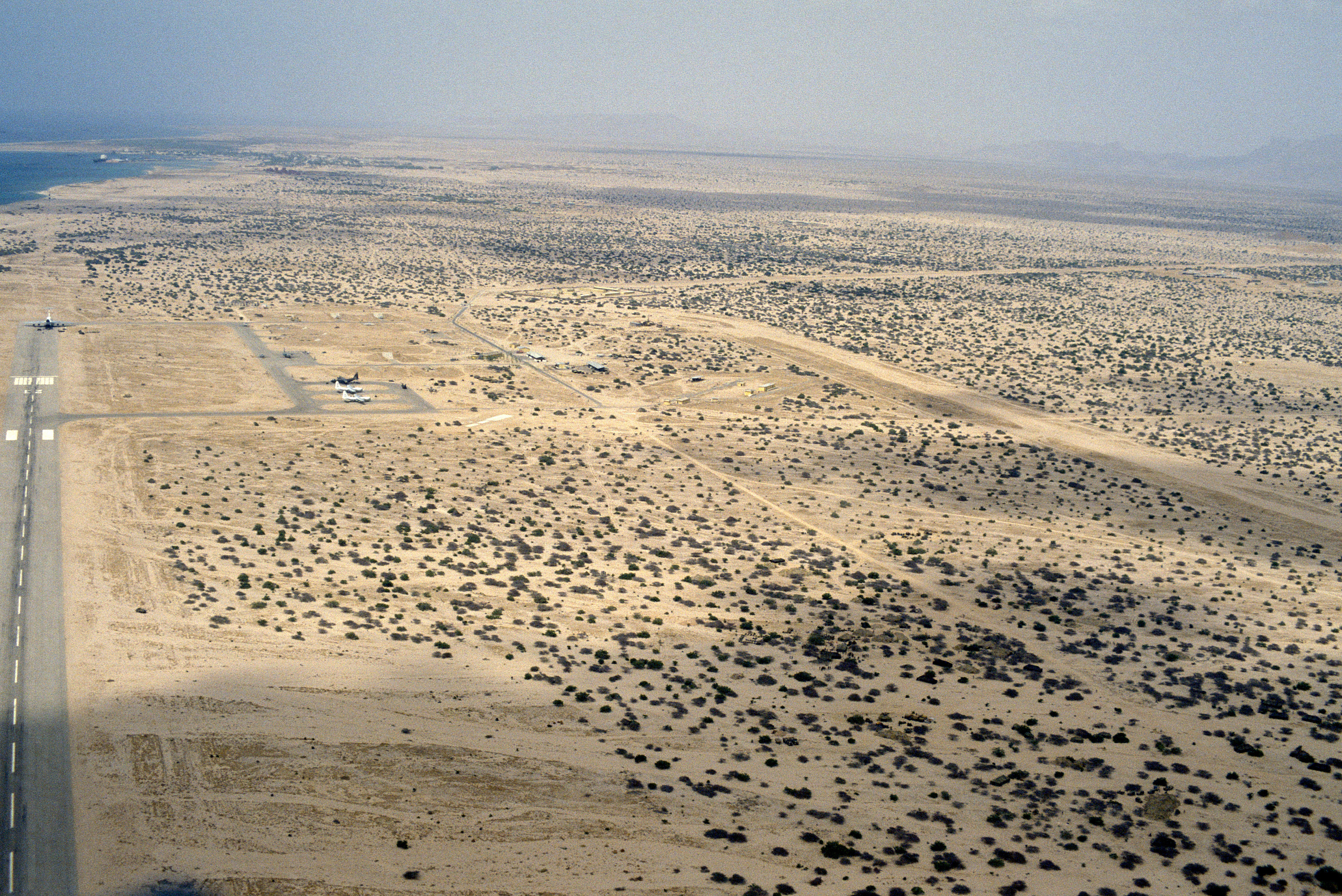 An aerial view of Berbera airport during Exercise EASTERN WIND '83, the amphibious landing phase of Exercise BRIGHT STAR '83. A C-5A Galaxy aircraft is at one end of the runway and several C-130 Hercules aircraft are parked on the apron.